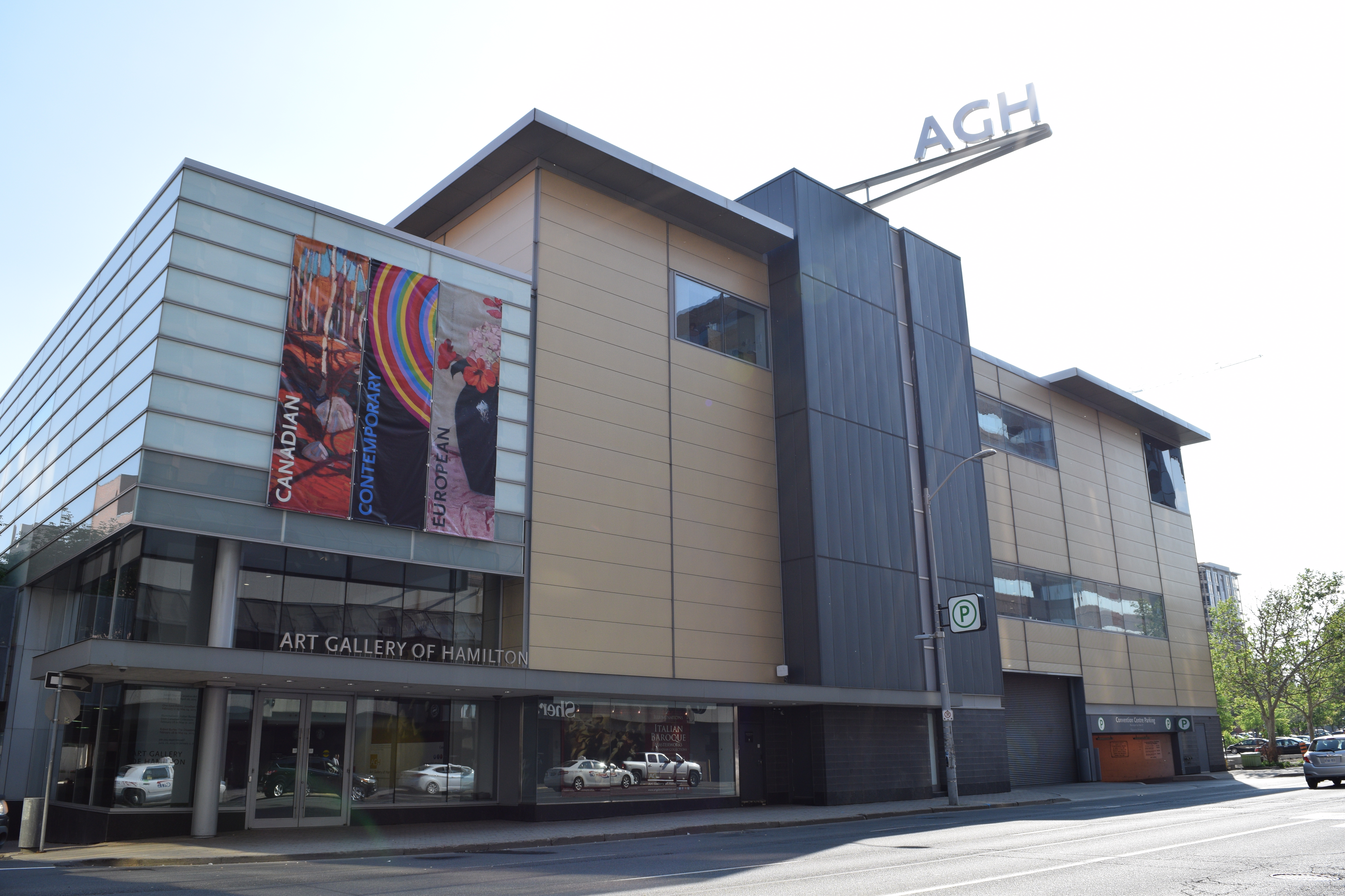 Photo of the Art Gallery of Hamilton, taken May 28, 2015